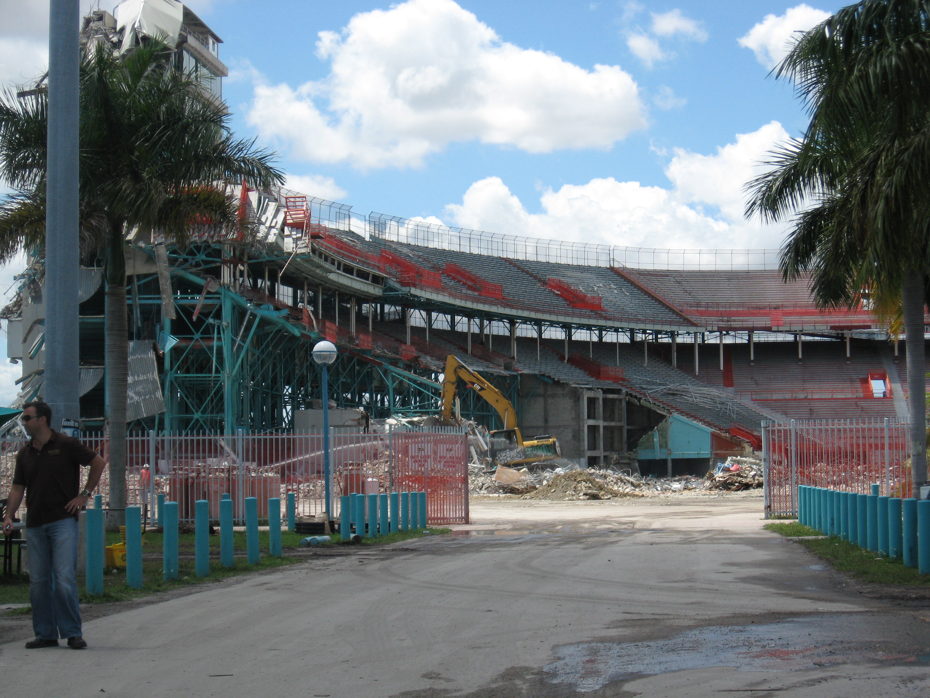 Orange Bowl being torn down